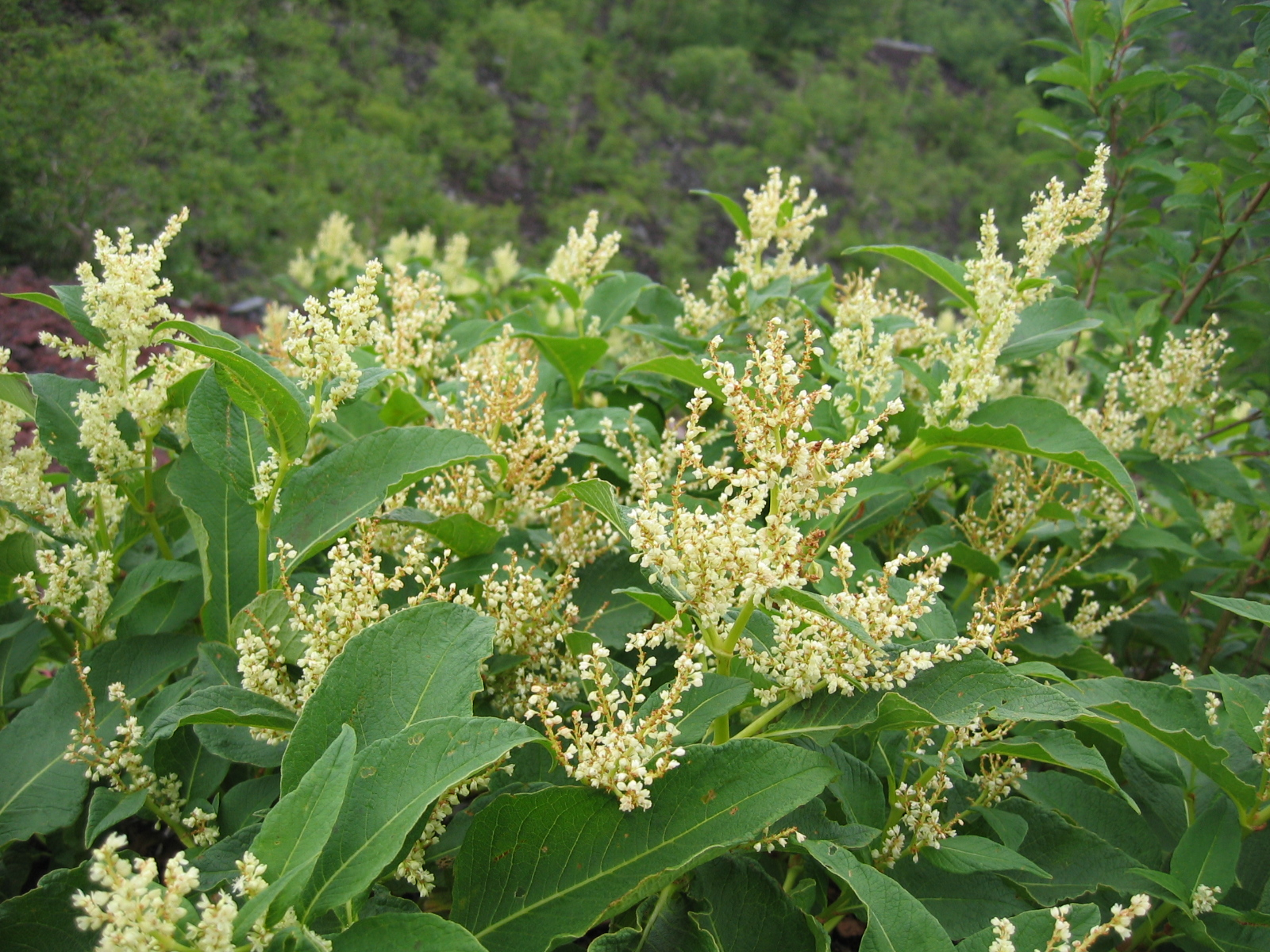 Aconogonon weyrichii var. alpinum